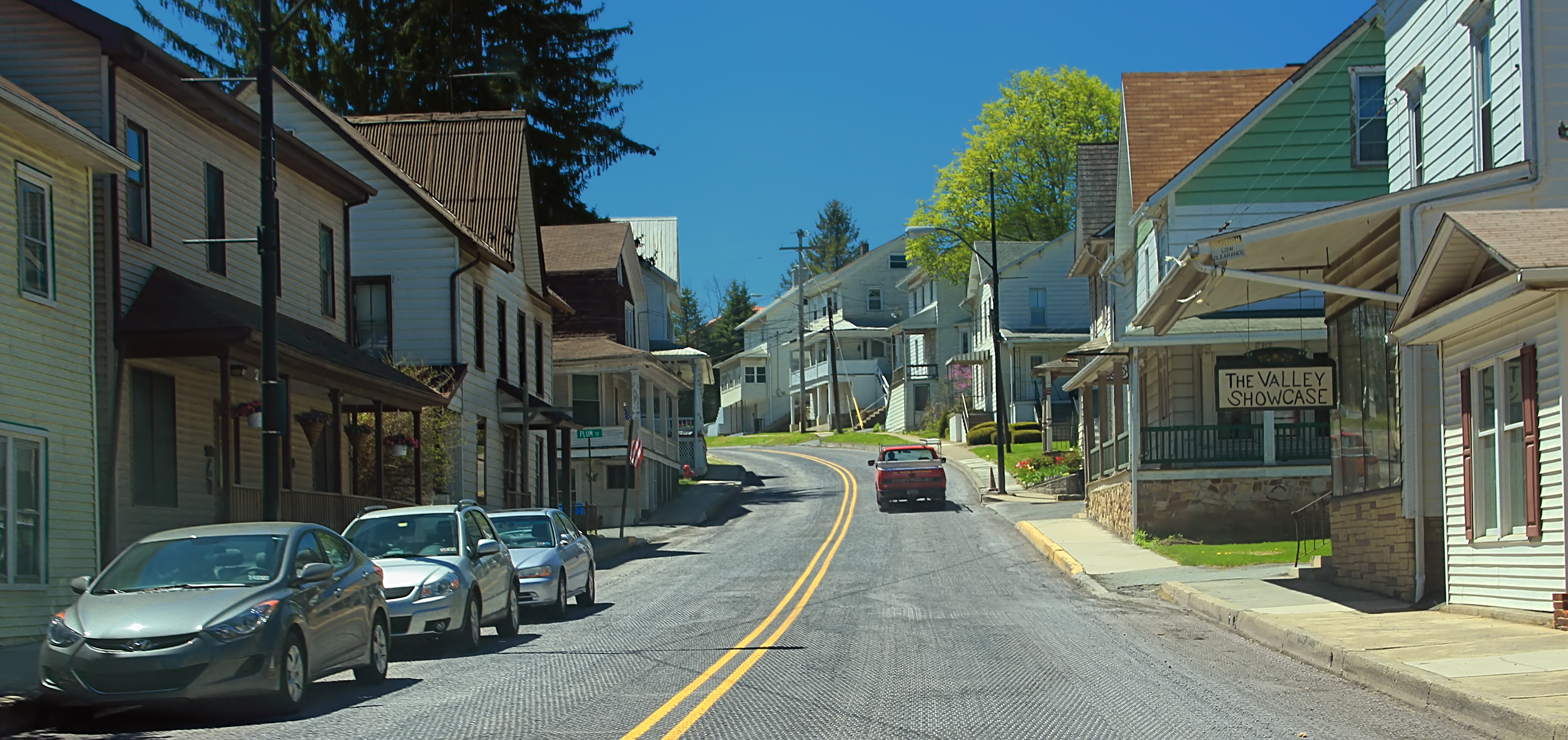 West Main Street (PA Route 45), borough of Millheim, Centre County.